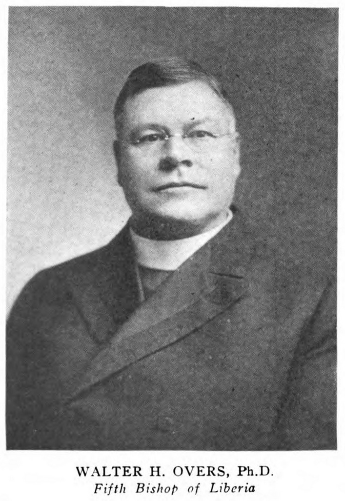 Photograph “Walter H. Overs”. Illustration from Forth Journal